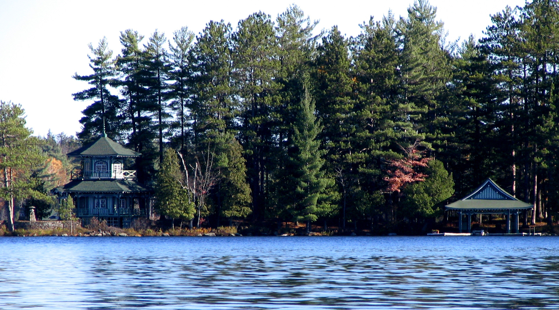 Pine Tree Point on Upper St. Regis Lake. Taken by User:Mwanner 22 October, 2007.